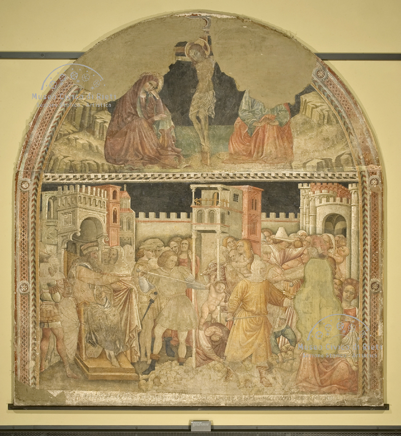 Crocifissione e Strage degli Innocenti, detached fresco pasted on canvas (dated May 1st, 1441); Rieti (Lazio, Italy), Museo Civico